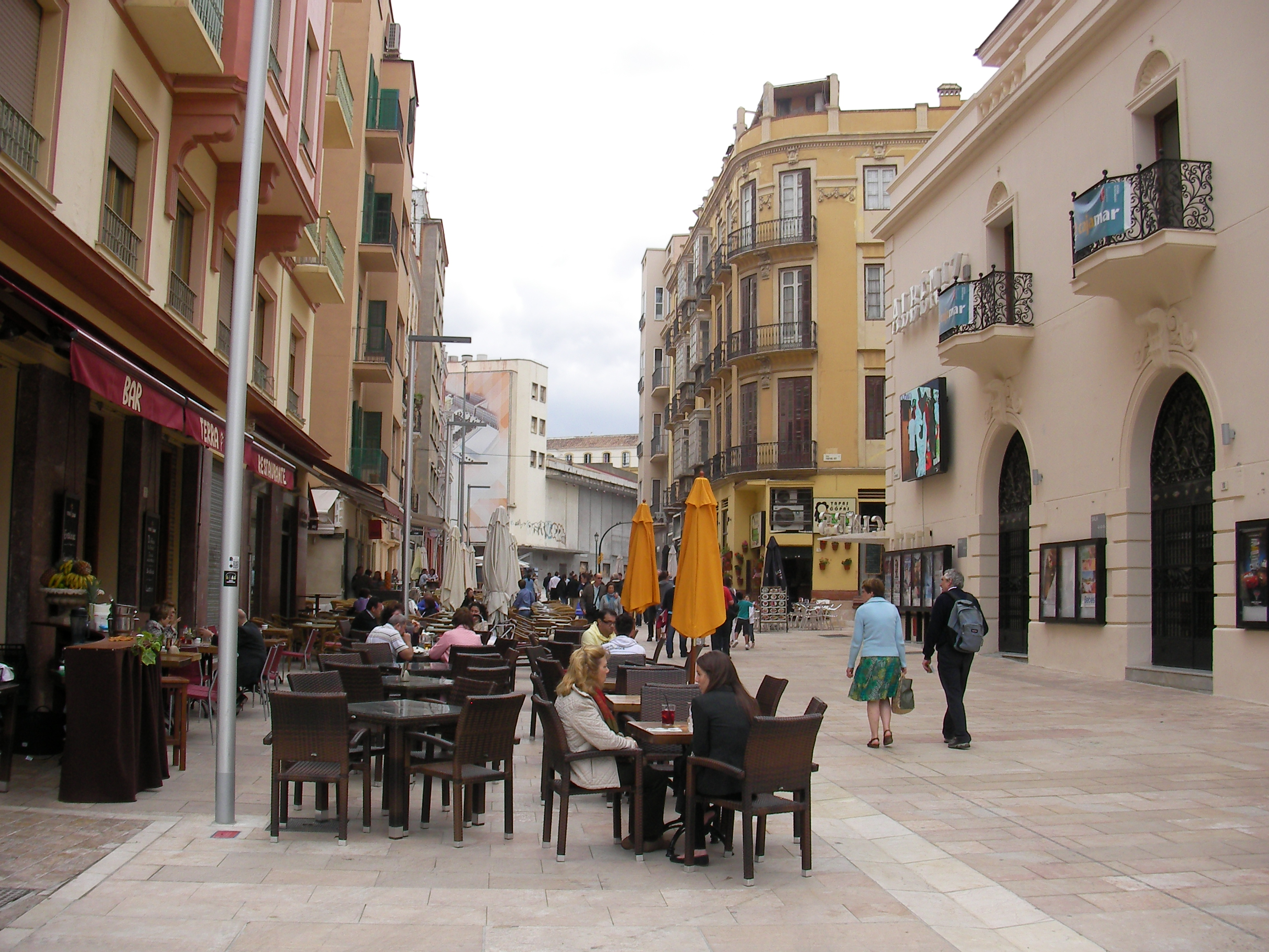 Alcazabilla street, Malaga.